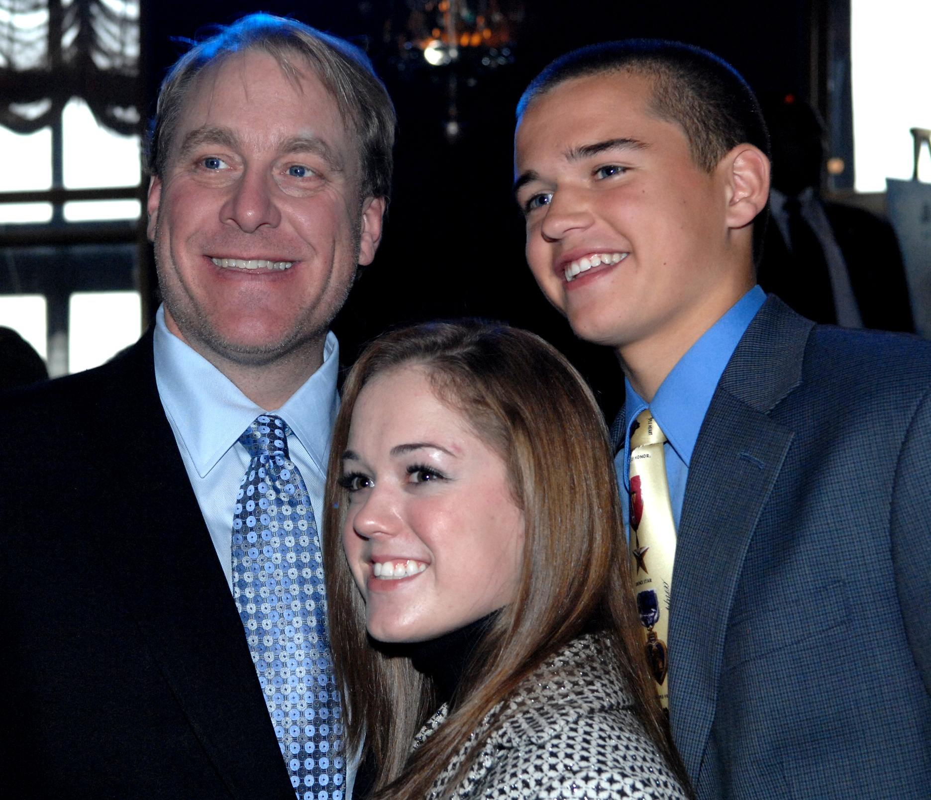 Boston Red Sox pitcher Curt Schilling poses for a picture with Brittany and Robbie Bergquist following the Microsoft Above and Beyond Awards Ceremony Nov. 12, 2007, in New York. The Bergquists set up a program to send prepaid calling cards to servicemembers in Iraq, started in 2004 when they were 13 and 12 years old, respectively.